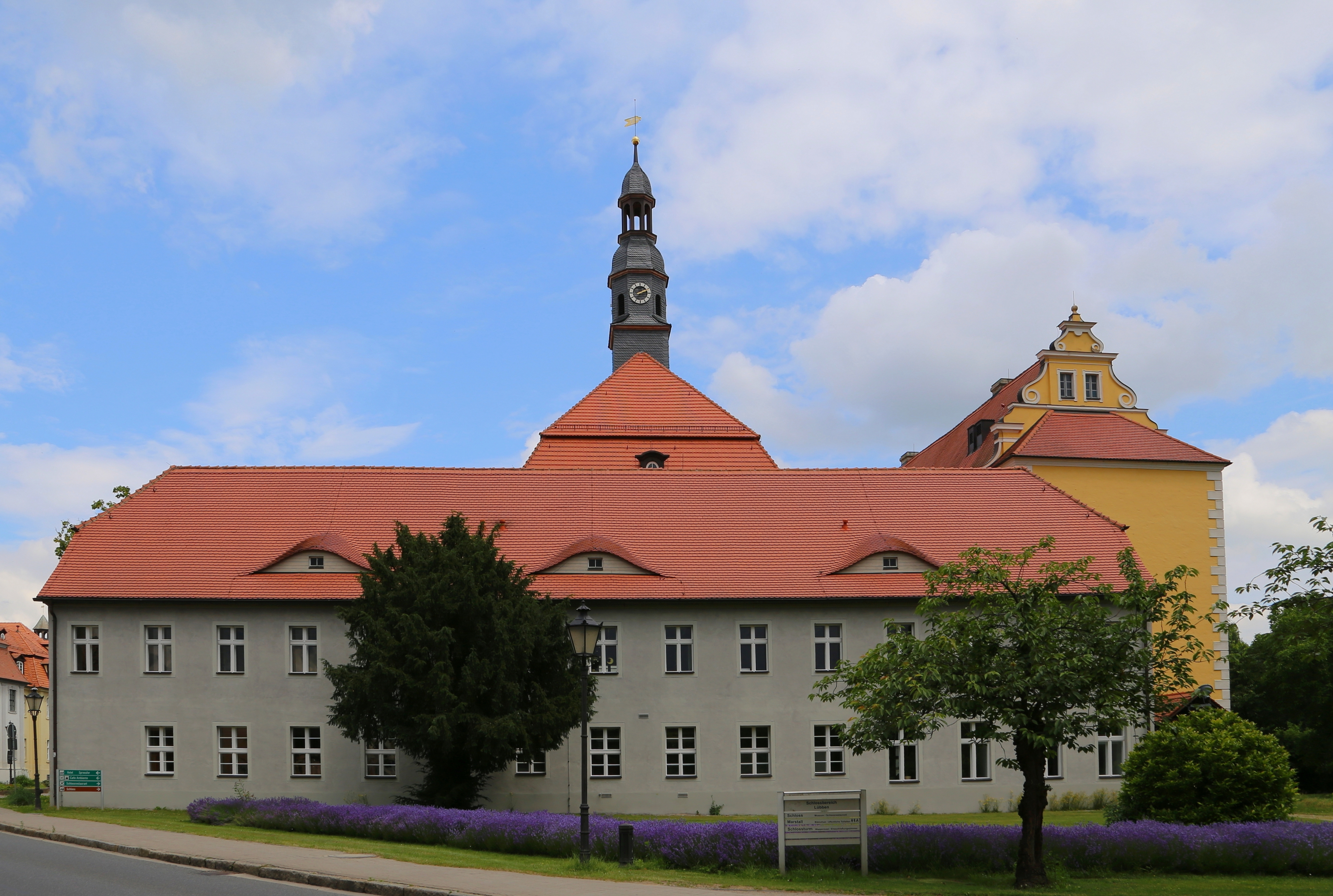 Museum Lübben Castle (Stadt- und Regionalmuseum Schloss Lübben) in Lübben, Landkreis Dahme-Spreewald, Brandenburg, Germany. It is a listed cultural heritage monument.